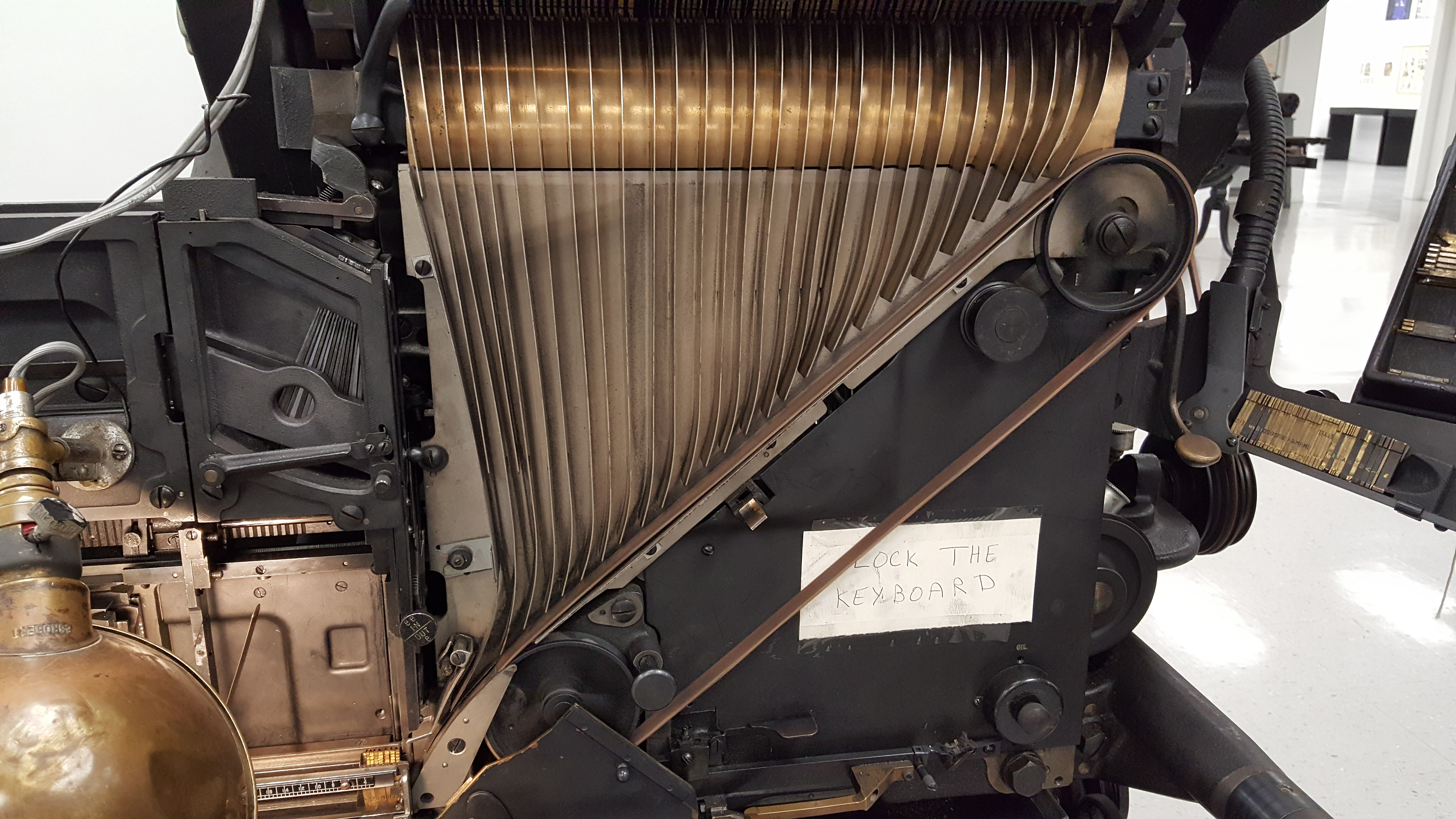 linotype model 8, assembler entrance place and matrix delivery belt